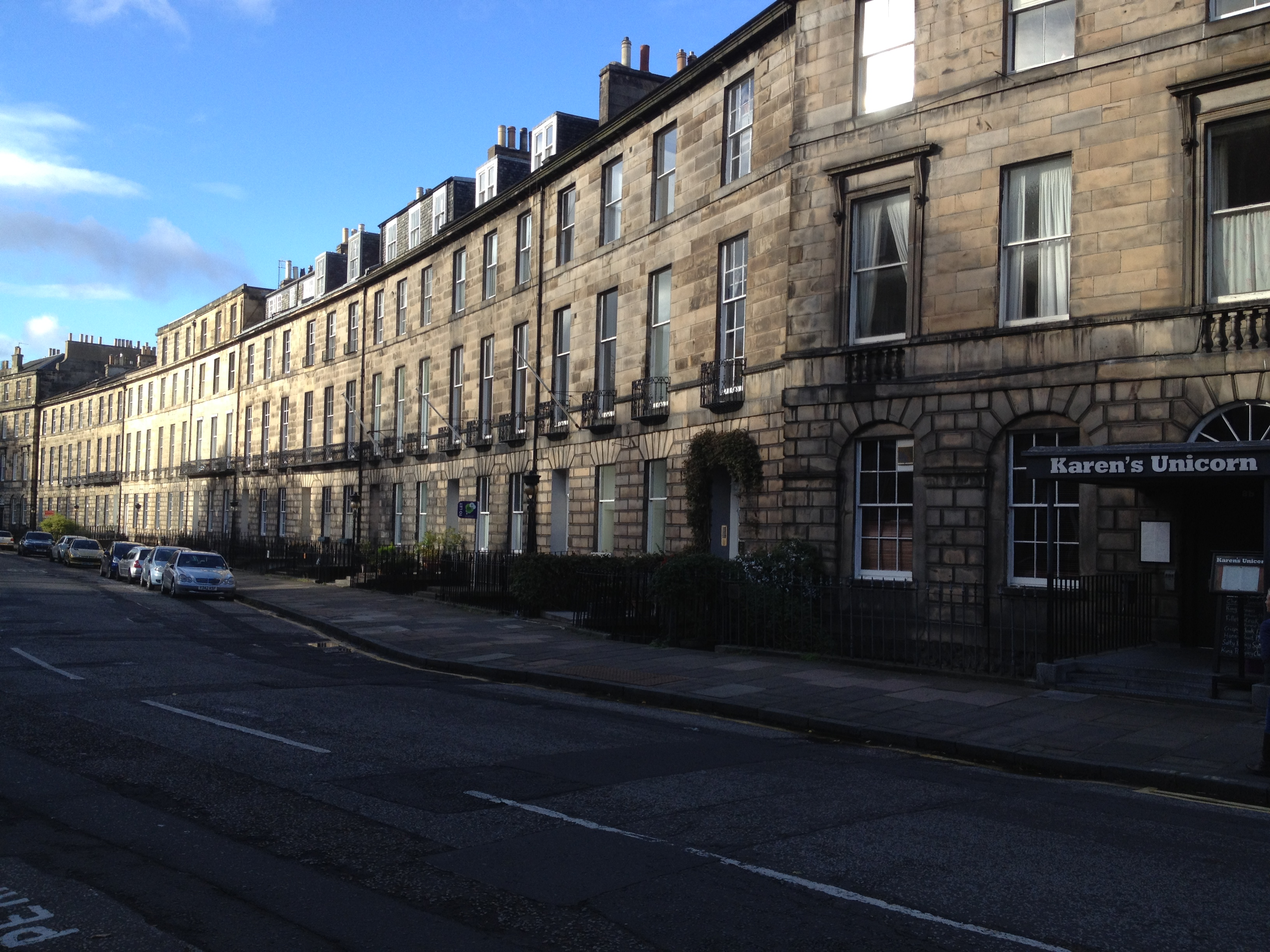 Abercromby Place 8-20, Edinburgh